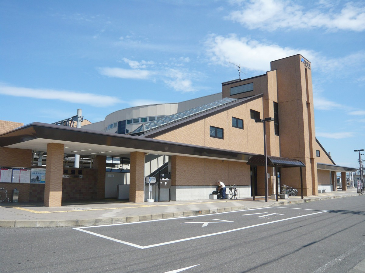 JR河瀬駅南口 Category:鉄道駅前画像